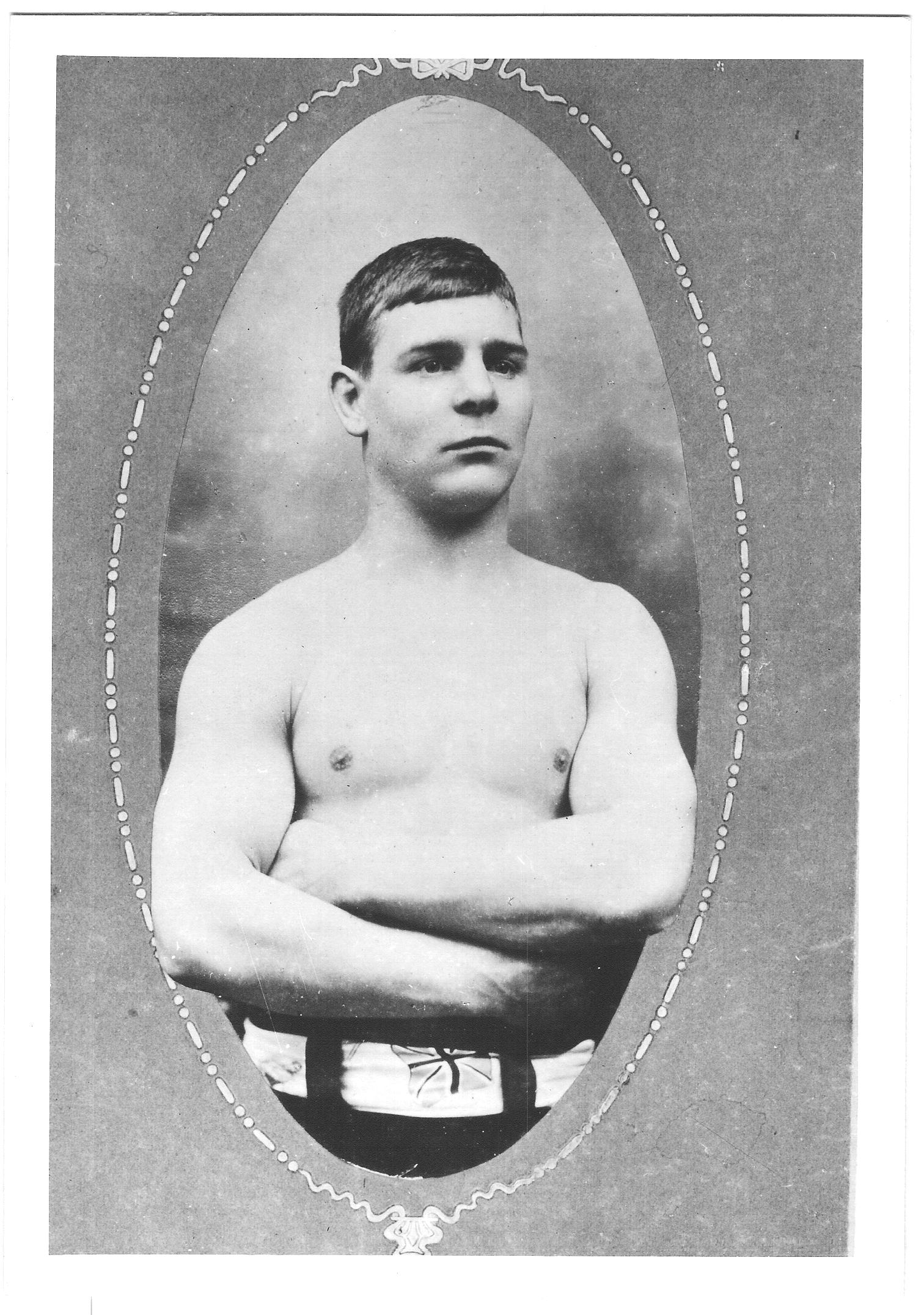 Portrait of Joe Bowker.